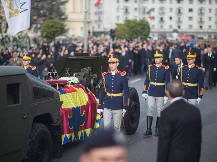 King Michael's coffin drawn across on a gun carriage by a military tank is led through Victoria Avenue